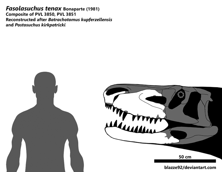 Reconstruction of the skull of Fasolasuchus tenax, is a composite of the known cranial bones, the premaxilla of the holotype (PVL 3850) and the maxilla and dentary from the referred specimen PVL 3851. Based on photos and drawings in Nesbitt et al. (2013) and Bonaparte (1981), other than the length of the maxilla no other measurement is mentioned so for the dentary I had to go with the scalebar alone. The scale of the premaxilla is based on the proportions of Postosuchus kirkpatricki, the rest of the skull is reconstructed after Batrachotomus kupferzenllensis with a bit of Postosuchus here and there to reflect its phylogenetic position. Total skull length estimated at ~91cm.